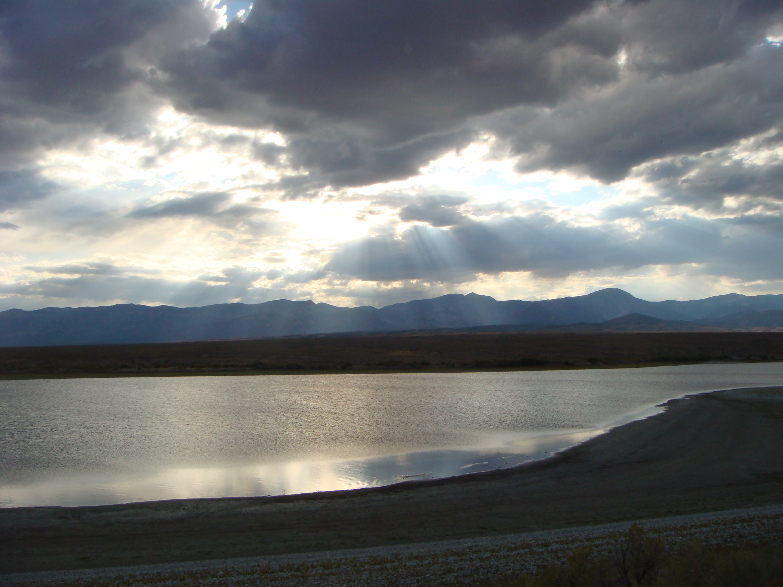 Crepuscular rays over Pruess Lake, Utah.